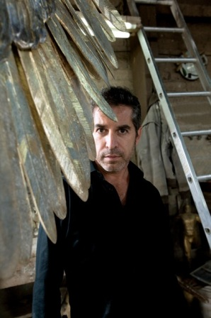 El Artista jorge Marín menor resolucion